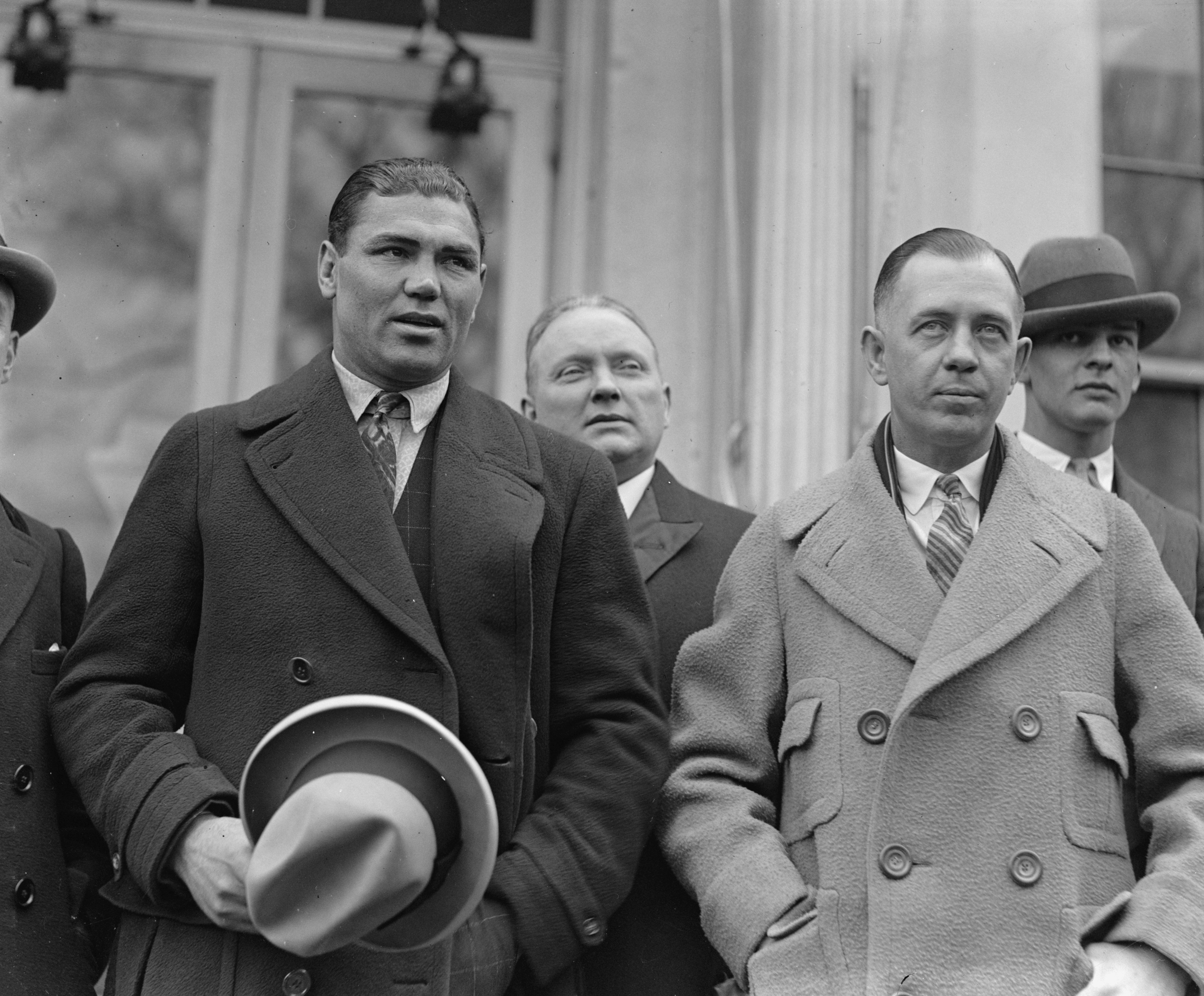 Jack Dempsey, boxer (left), and Jack Kearns, boxing manager